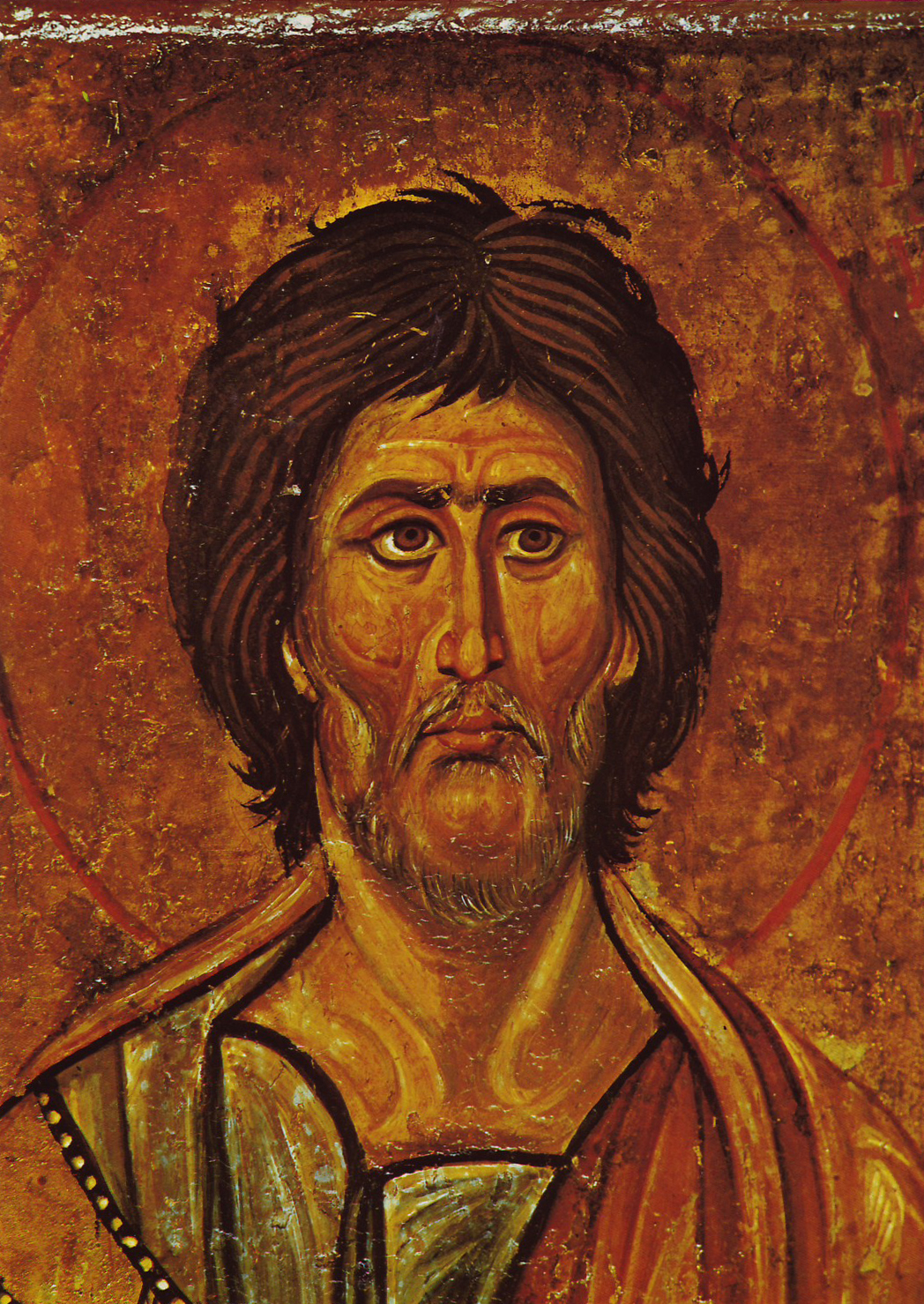 Portrait of Moses, detail. The style of the beard which is unusual for byzantine art supports the theory that this piece might have been created by a french crusader. Third quarter of the 13th century. 34.3 x 23.8 cm